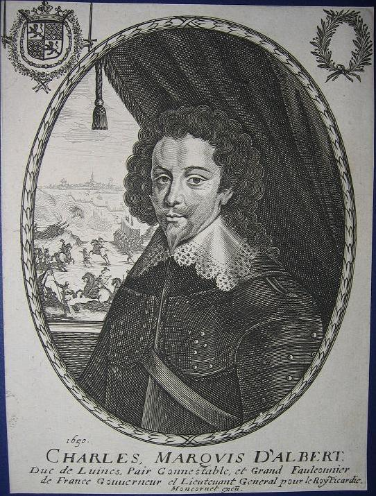 Charles d'Albert, duke of Luynes, 1578-1621, by Balthazar Moncornet, signed and dated 1650